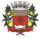 Brasão de Embaúba